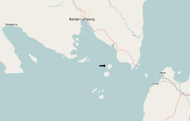 Location of Sebuku Island in the Sunda Strait, south of Sumatra. Derived from OpenStreetMap